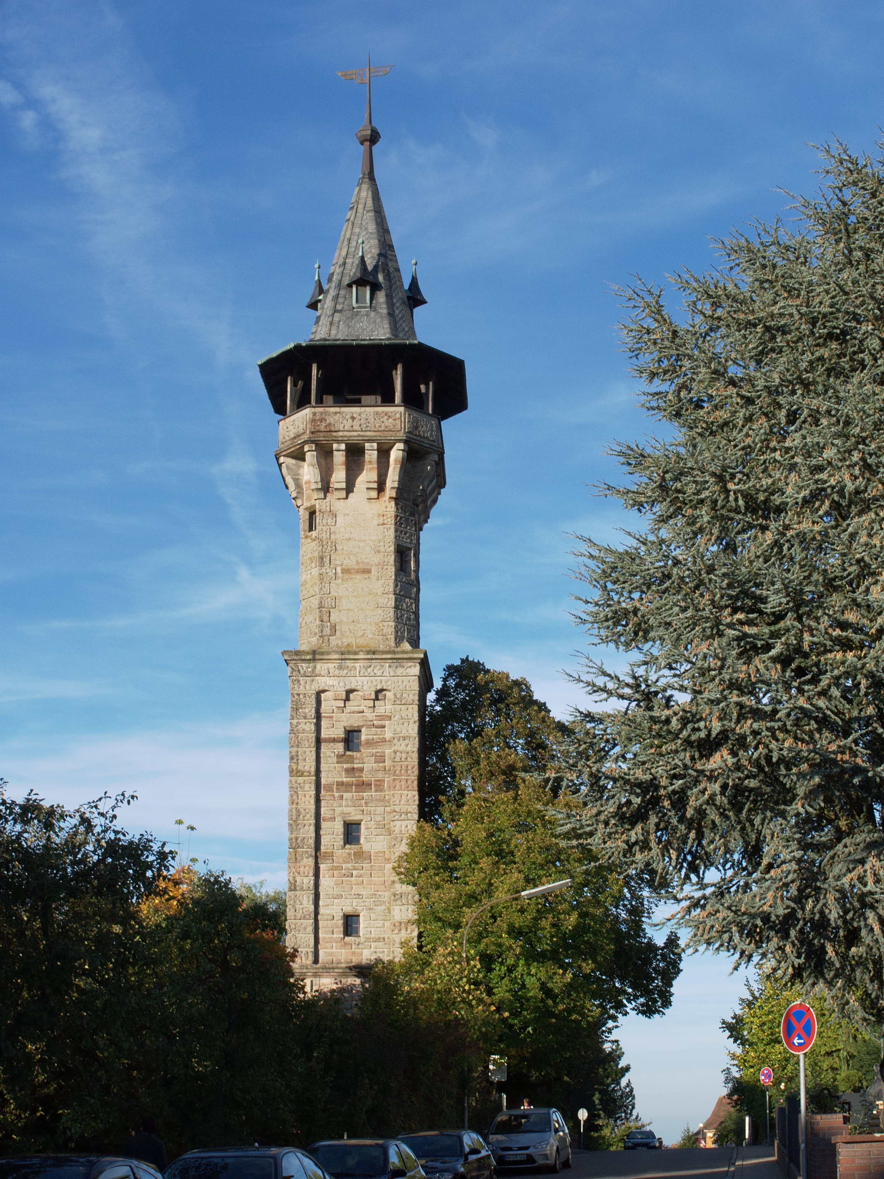 View tower Cadolzburg